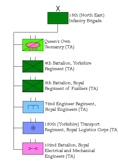 15th (North East) Infantry Brigade (TA)